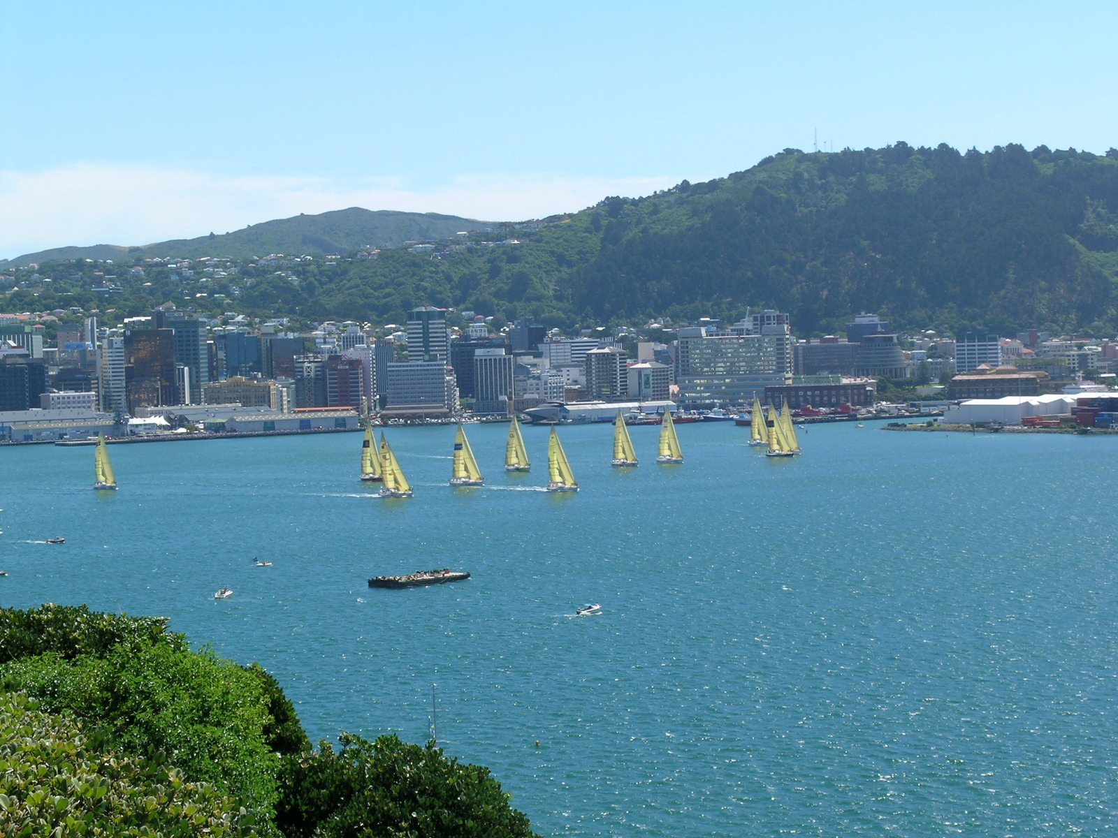 Wellington Harbour, Wellington, New Zealand